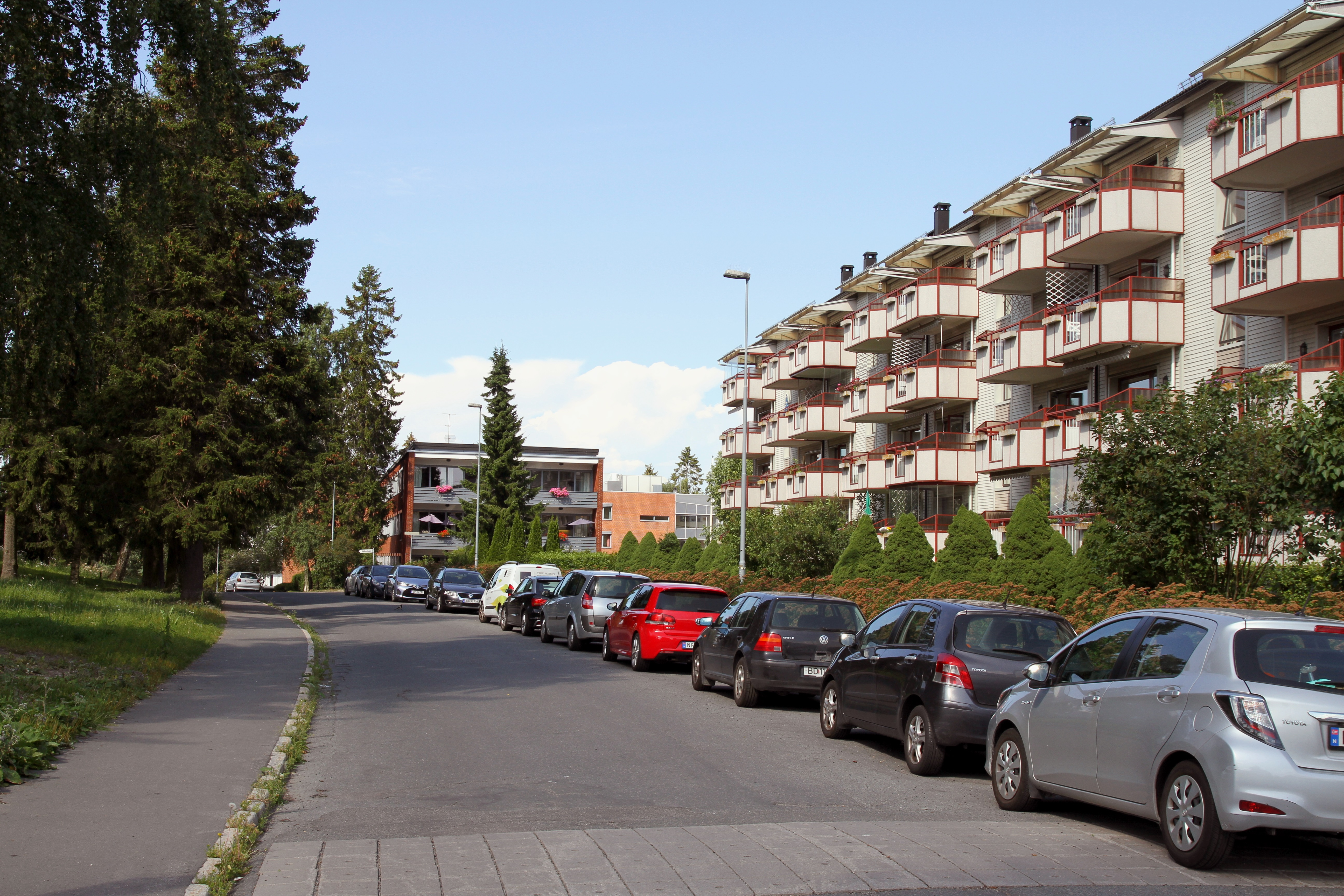 Østerliveien i Oslo, sørlig del.